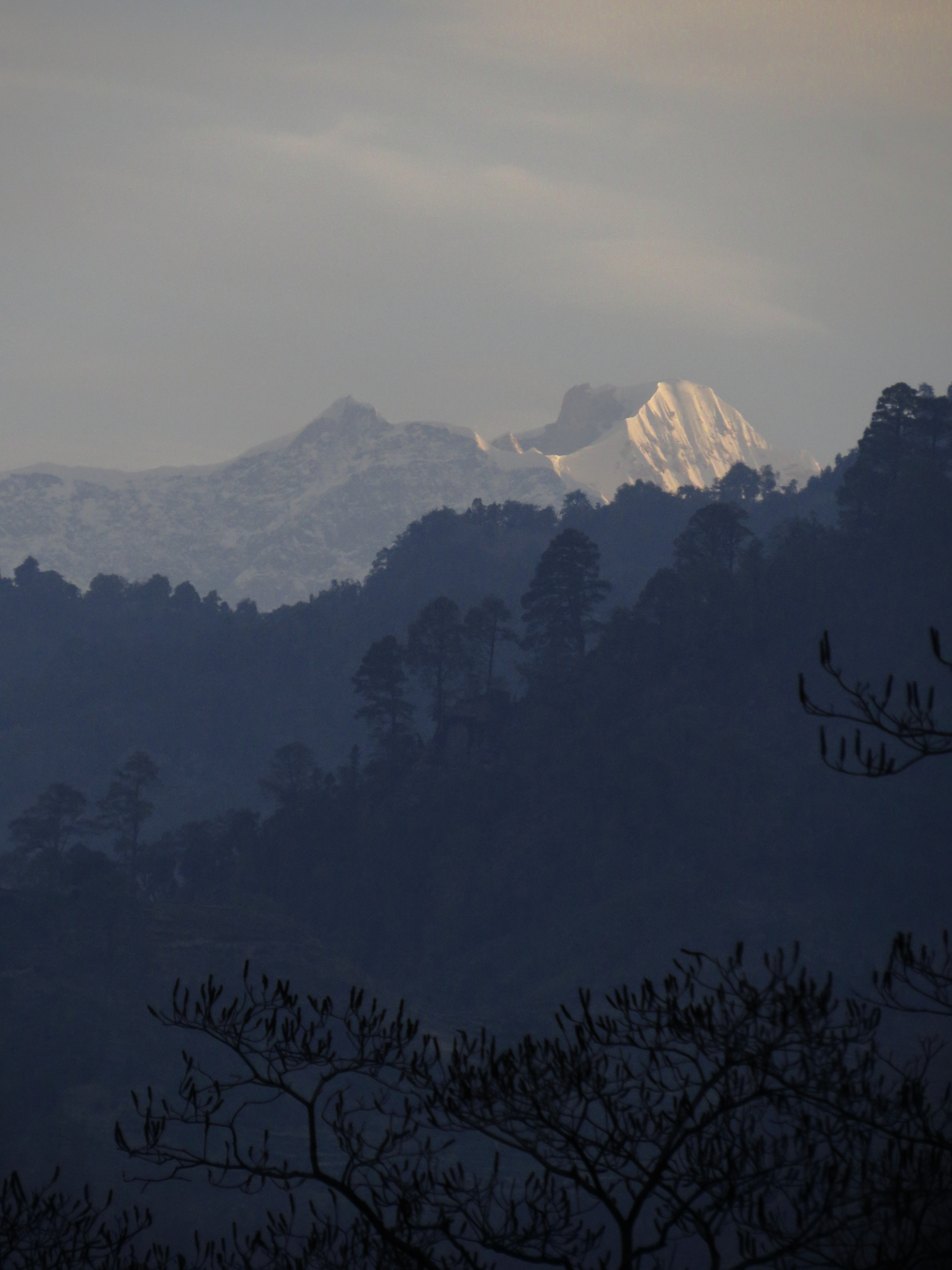 This is an image of the first rays of sunlight fallling on Mt. Kedarnath in early morning. It has been clicked in 2016.